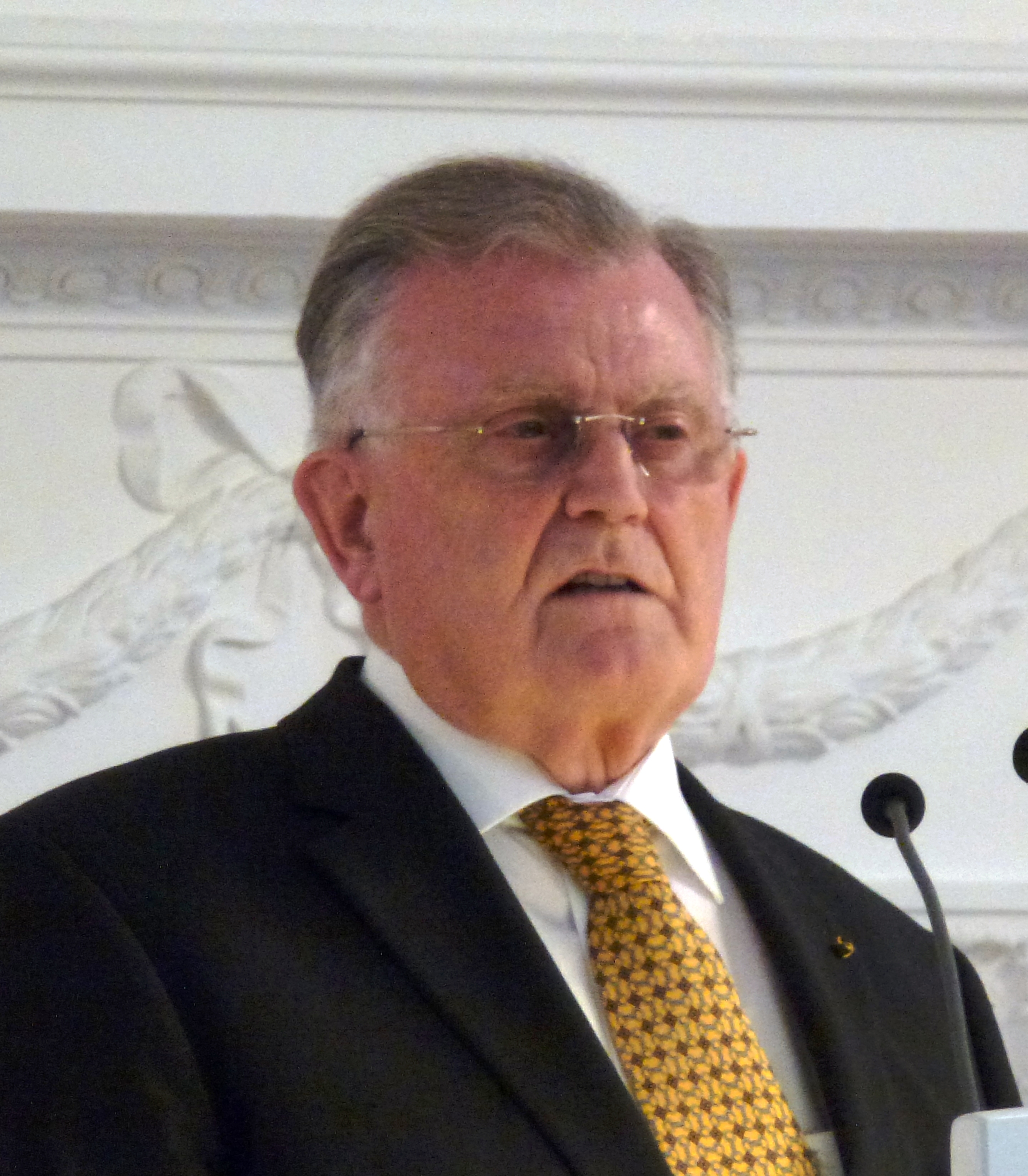 Erwin Teufel 2011 - former Prime Minister of Baden-Württemberg, Germany